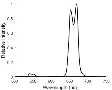 Optical luminescence emission spectra of up-conversion nano-particles illuminated at 980 nm. Nanoparticles are a cubic NaYF4 lattice, with 20% Yb, 2% Er dopants.